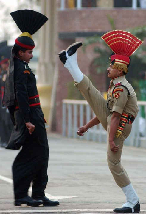 Border Security Force soldier making a move in his drill, frightens a Pakistan Rangers soldier at Atari-Wagah border, unique terrestrial border between India and Pakistan.